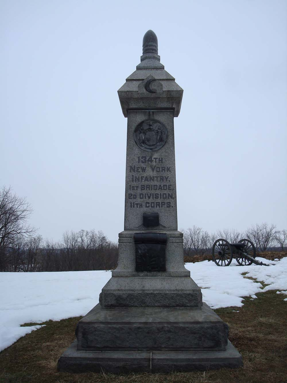 134th New York Infantry Monument, East Cemetery Hill, Gettysburg Battlefield.